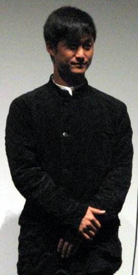 Wu Jing in 2005.